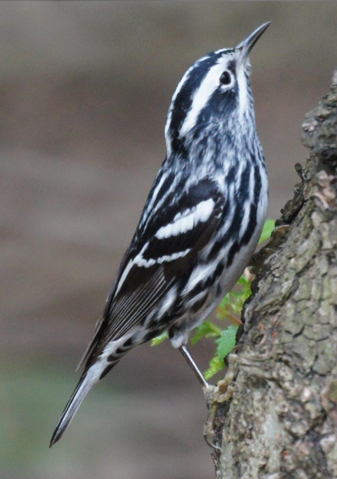 Black and White Warbler Mniotilta varia